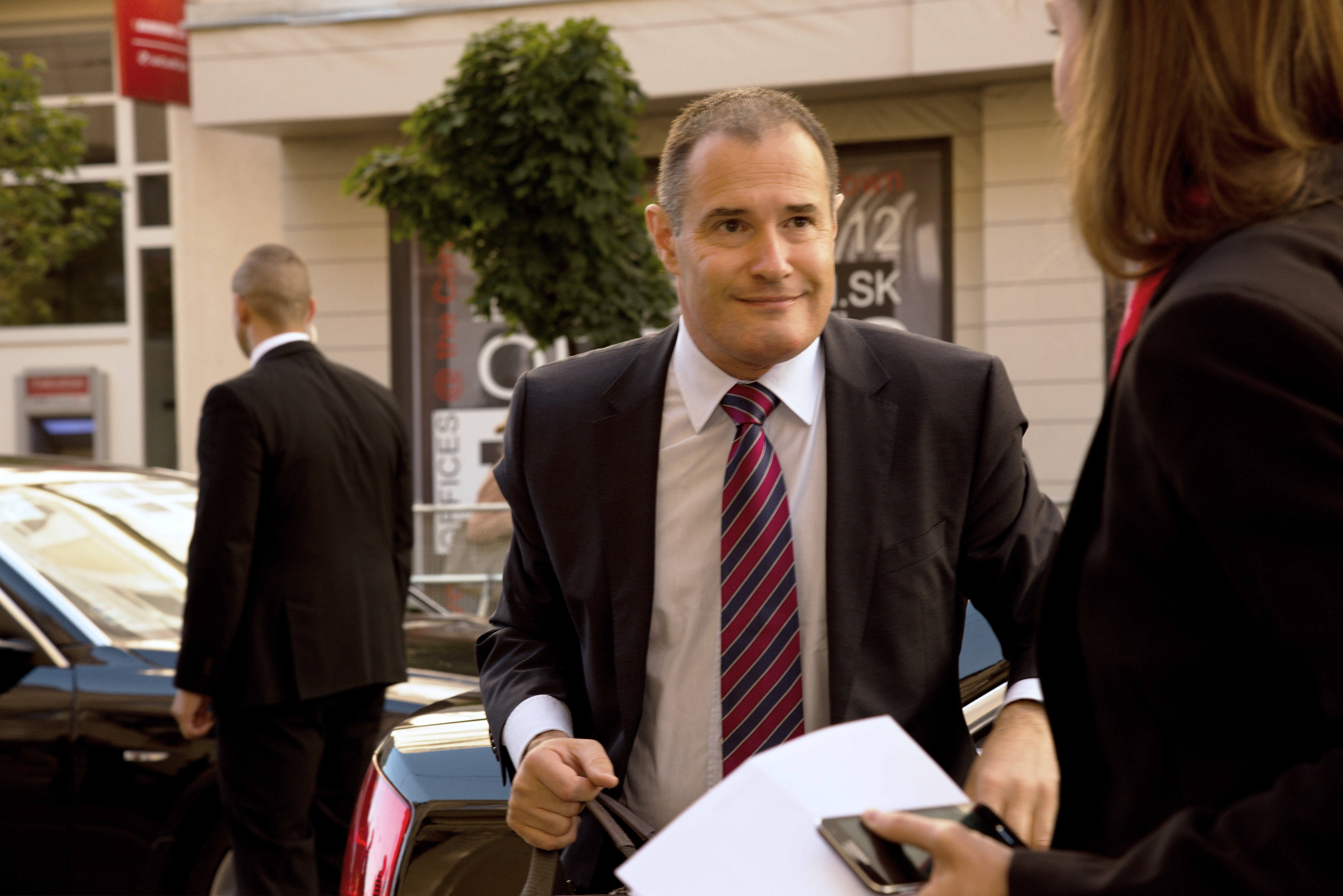 Frontex, Mr. Fabrice Leggeri, Executive Director, ph: halime sarrag